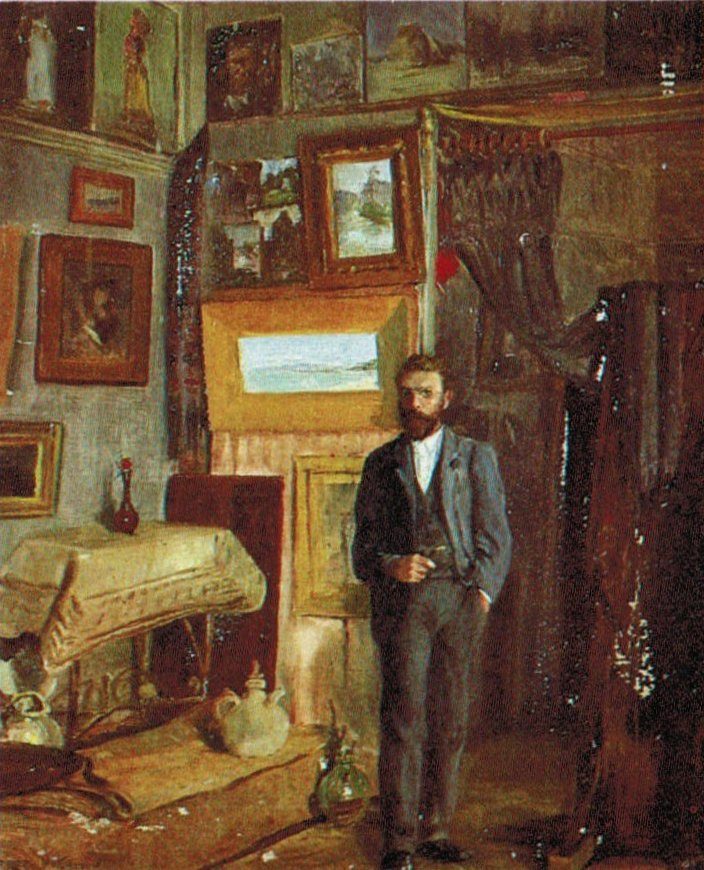 Self Portrait in Studio